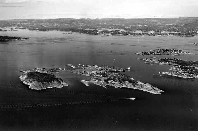 Aerial view of Gressholmen, an island in Oslo. Lindøya and Nakholmen to the right.